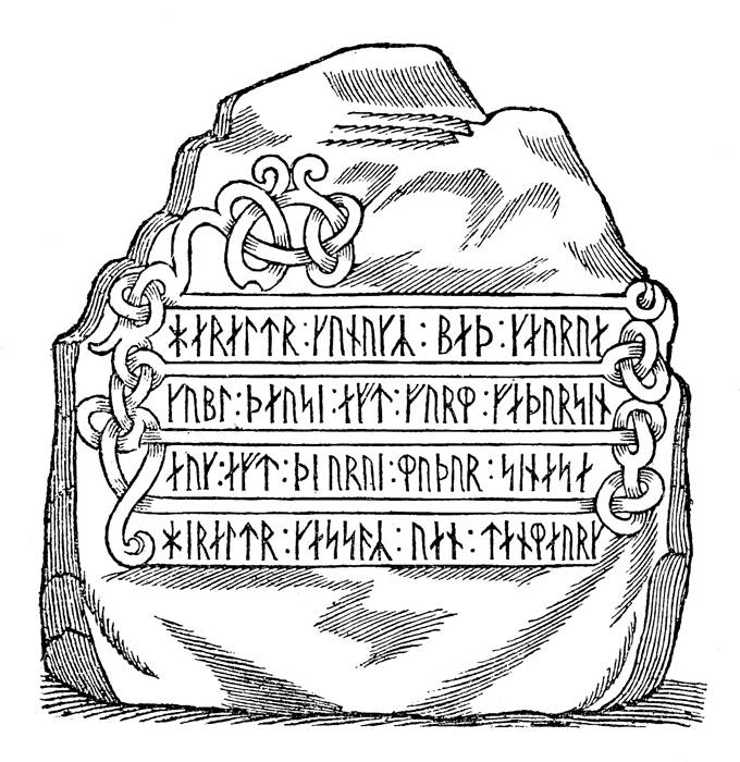 Foto: Nationalmuseet